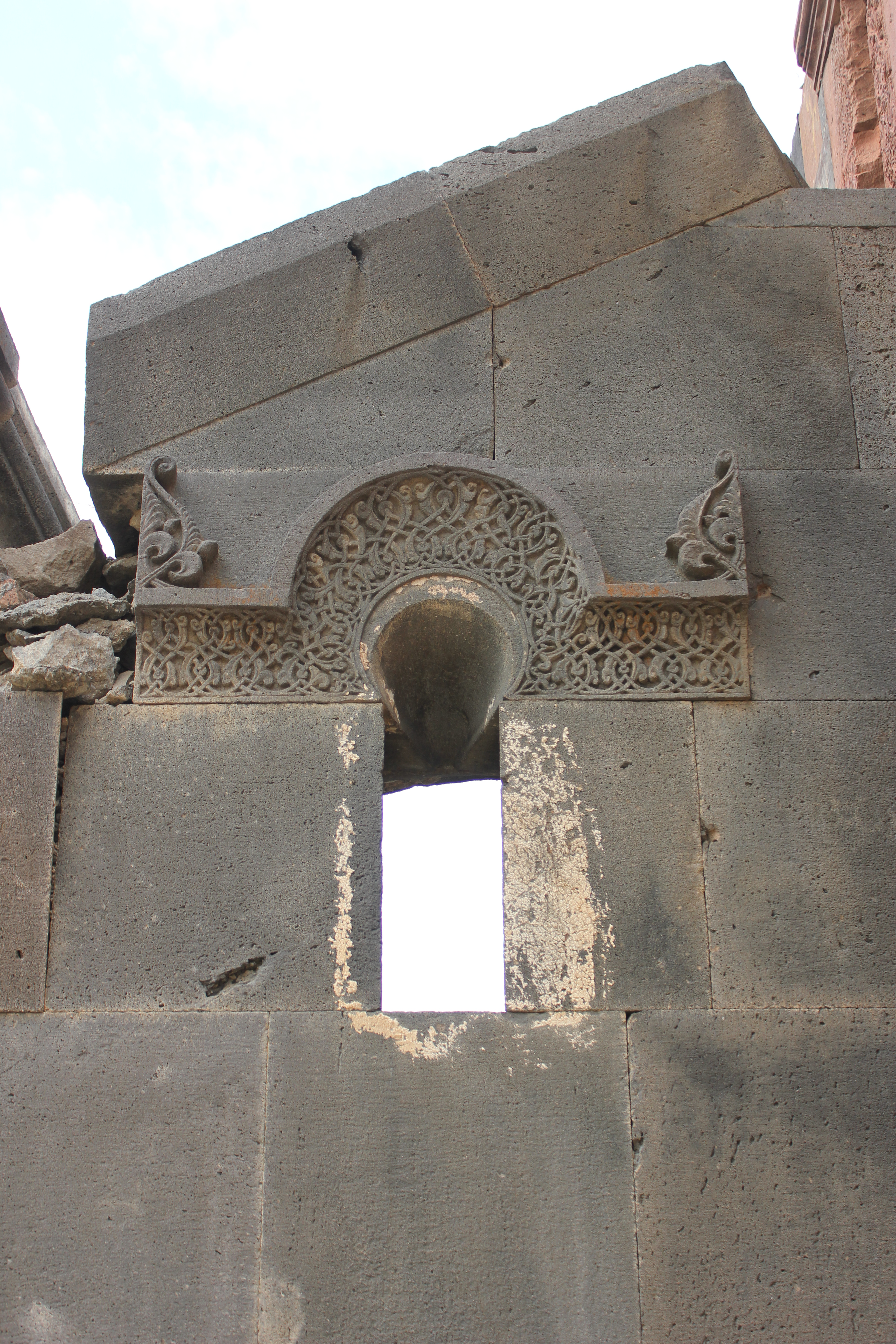 Havuts Tar is an 11th to 13th-century walled monastery, situated upon a promontory along the Azat River Valley across from the villages of Goght and Garni in the Kotayk Province of Armenia. 99.4/3.1